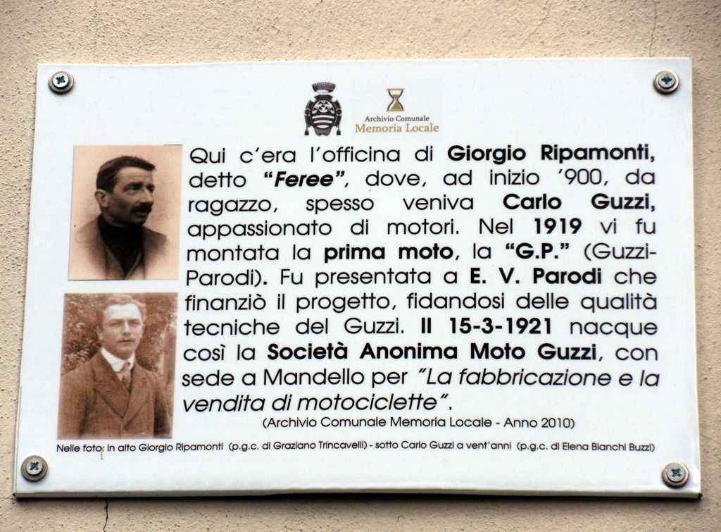 Plaque commemorating the workshop of Giorgio Ripamonti